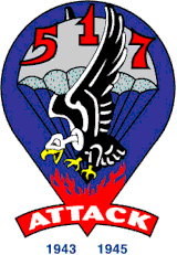 Image is the logo of the 517th Parachute Infantry Regiment (the "Battling Buzzards"), designed by Richard "Dick" Spencer III of the 517th during WWII. It has been re-rendered into a gif format. Considered public domain. From site